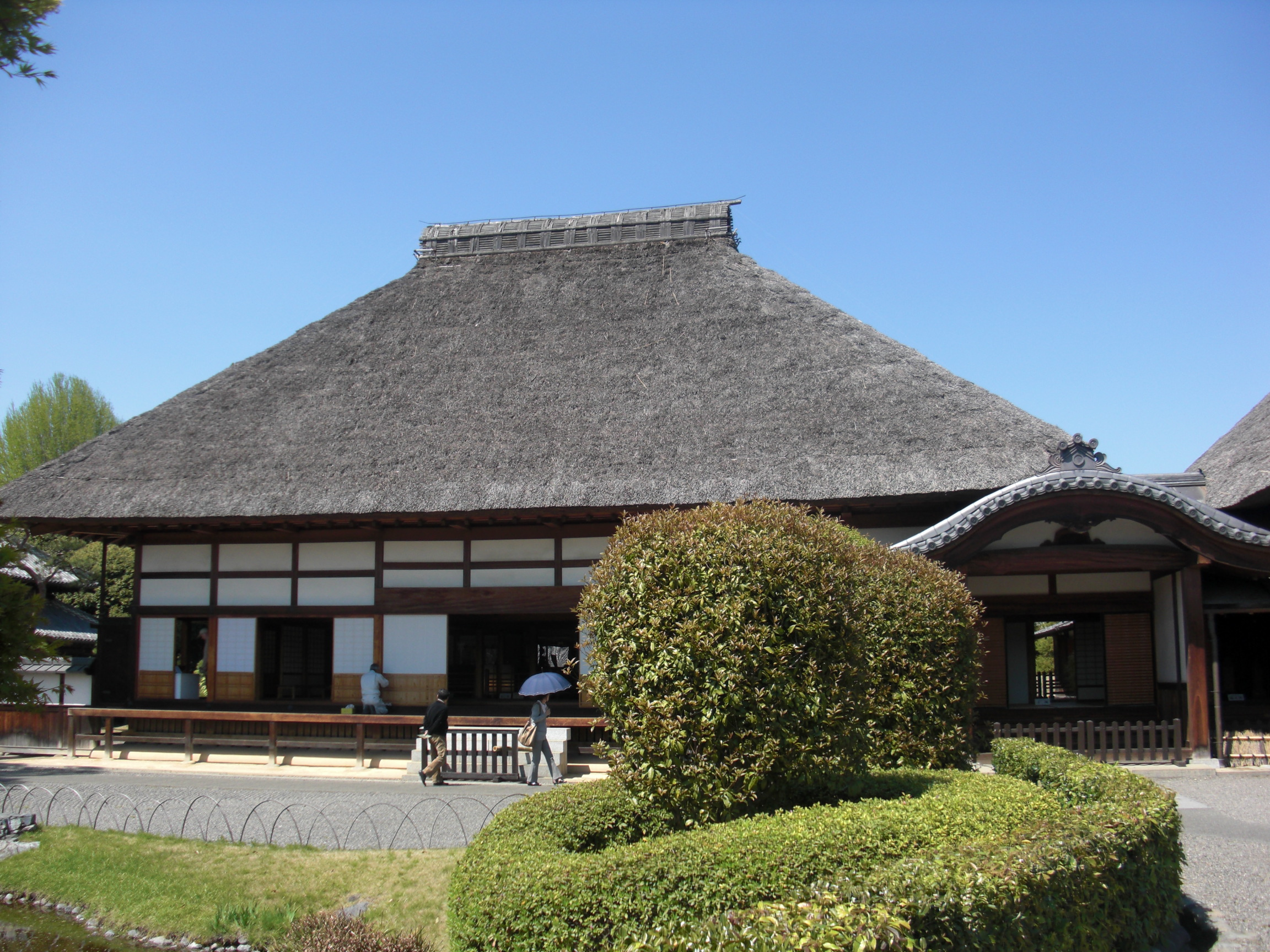 This is the Hojo, which is in Ashikaga school. Ashikaga school is in Ashikaga, Tochigi, Japan.